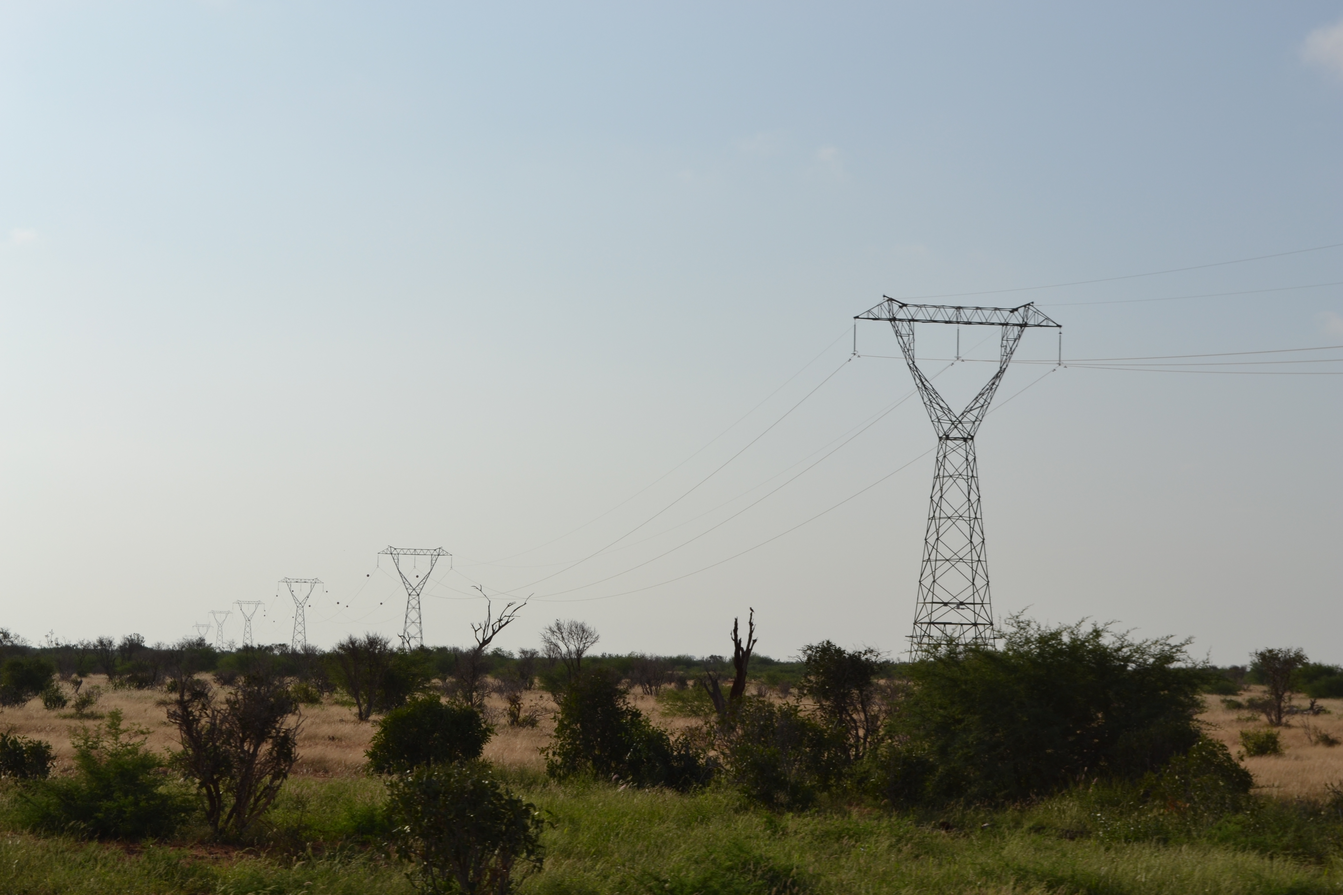 High-voltage electric power transmission line, as viewed towards the south-east in the Tsavo East National Park, Kenya. This transmission line runs across the park in a north-west/south-east orientation, with this photograph being taken south of the Voi River and east of the Aruba Dam.